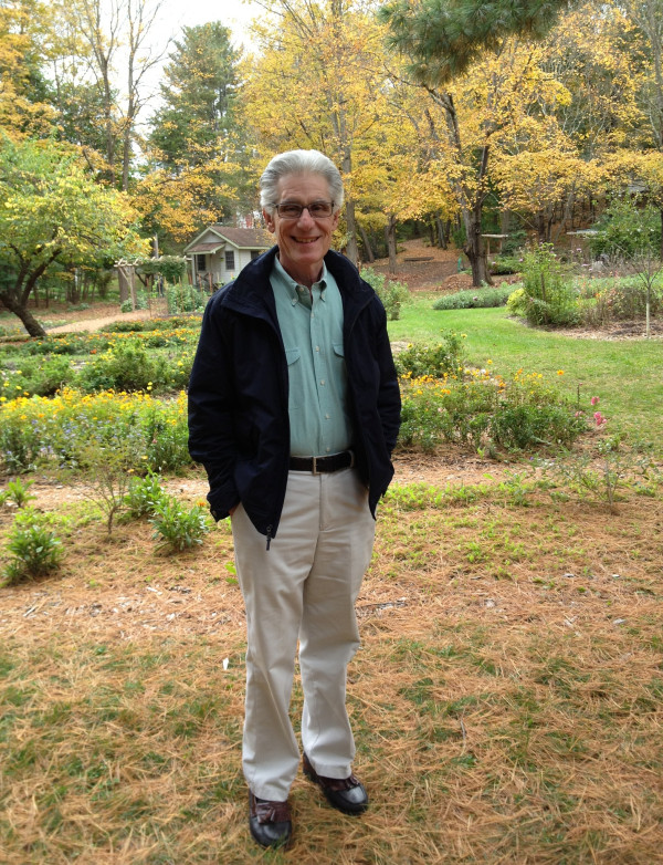 At Omega Institute For Holistic Studies. Also published in